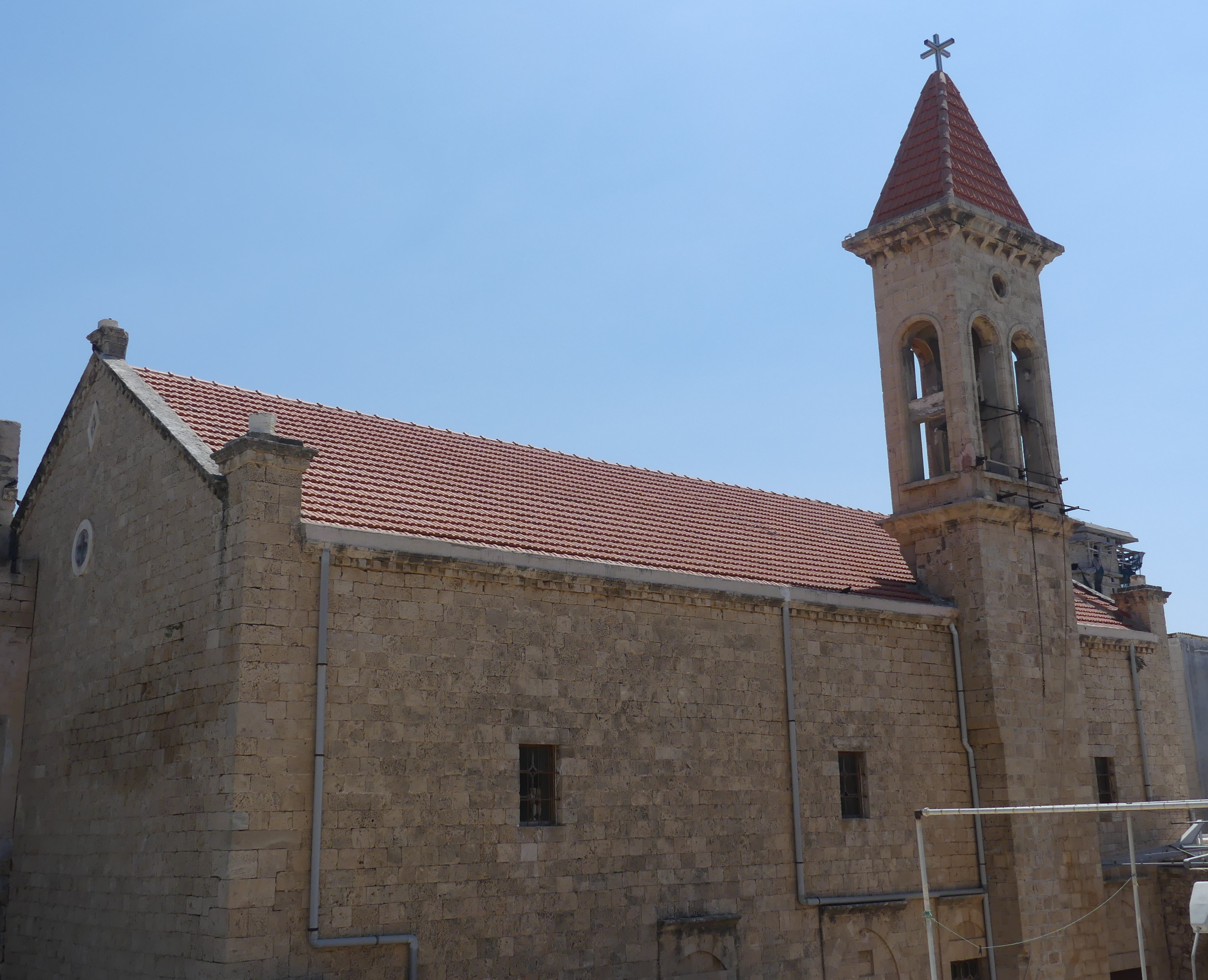 Southern view of the Maronite Catholic Cathedral "Our Lady of the Seas" in Tyre/Sour, Southern Lebanon, built in 1850